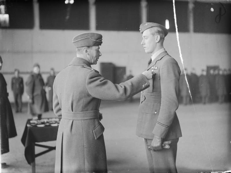 King George VI conferring a Bar to Flying Officer A G Lewis's DFC in an awards ceremony at Duxford, Cambridgeshire. Lewis, a South African, had just returned to service with No. 249 Squadron RAF, after being shot down and badly burnt on 28 September 1940, at which time he had himself shot down 18 enemy aircraft.